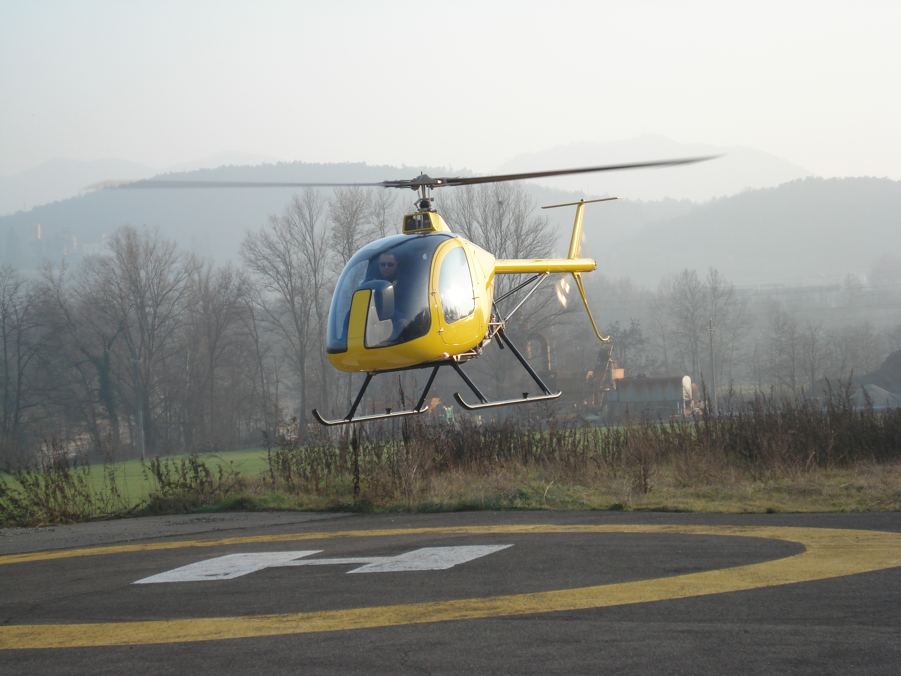 DF Helicopters DF 334 hovering